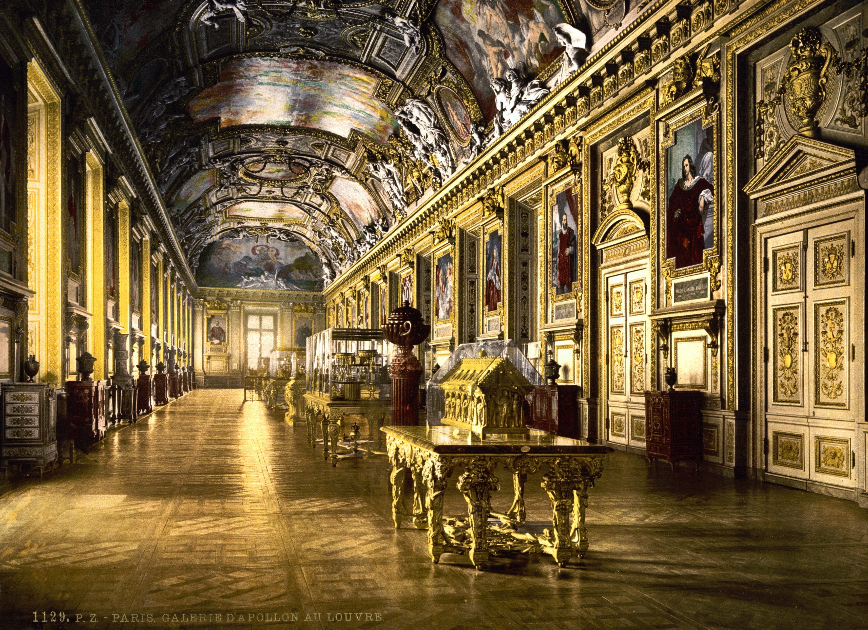 The Louvre, a gallery in the Louvre, Paris, France. Medium: 1 photomechanical print : photochrom, color.